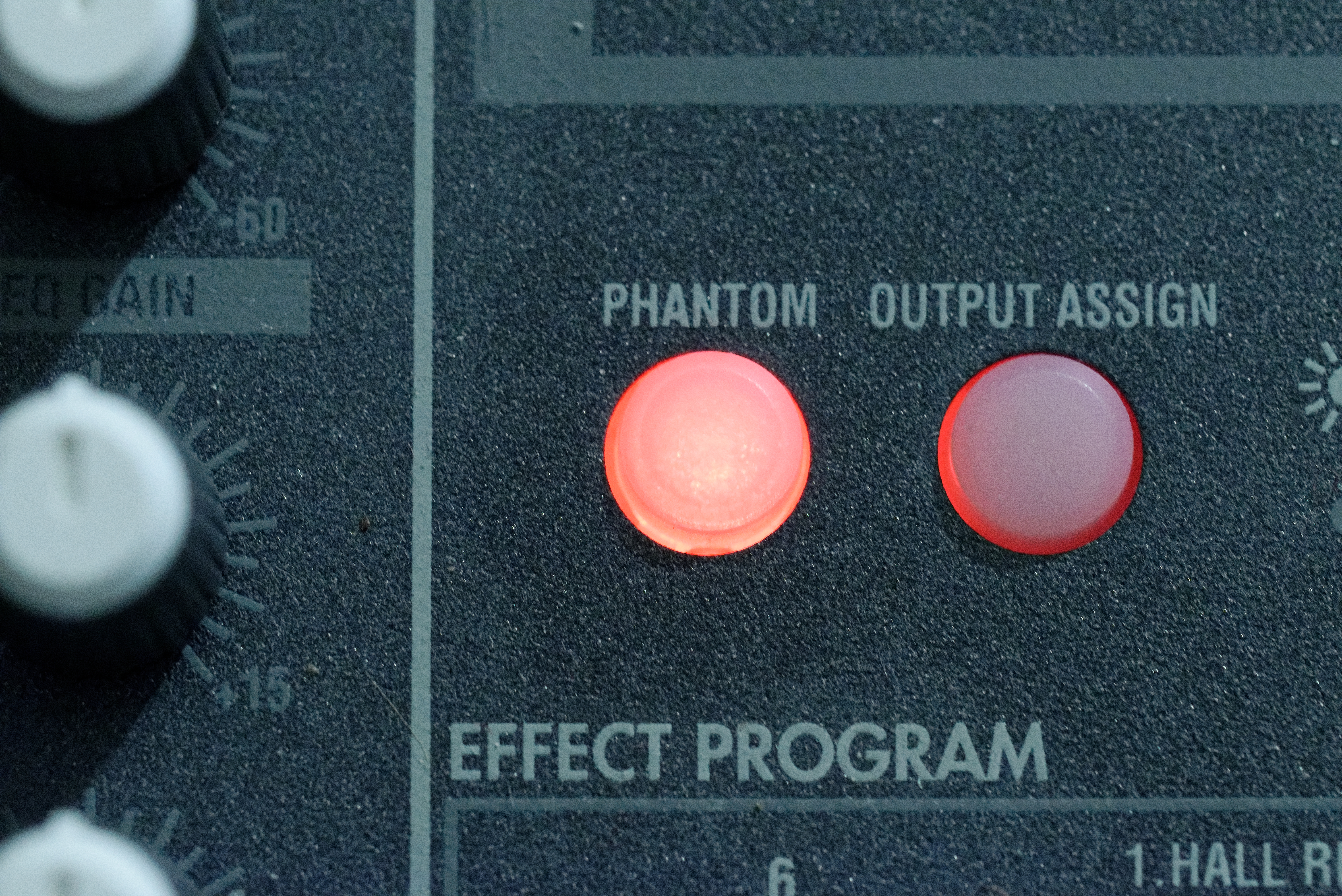 Phantom power button and indicator light on a Korg D888 digital recorder